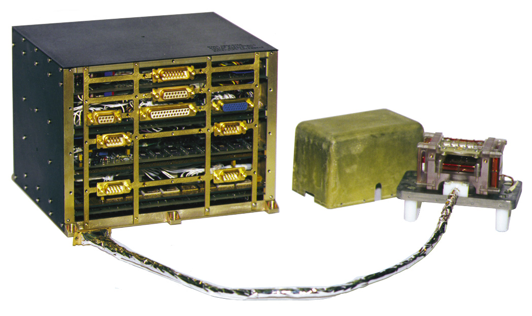 Instrument of the scientific satellite Advanced Composition Explorer. MAG consists of two wide-range triaxial magnetometers.